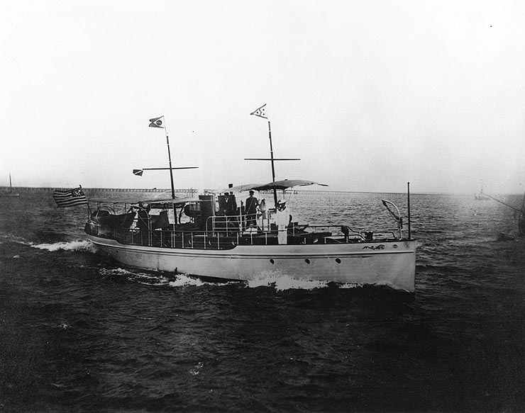 The motorboat Blue Bird, prior to her United States Navy service as patrol vessel USS Blue Bird (SP-465)